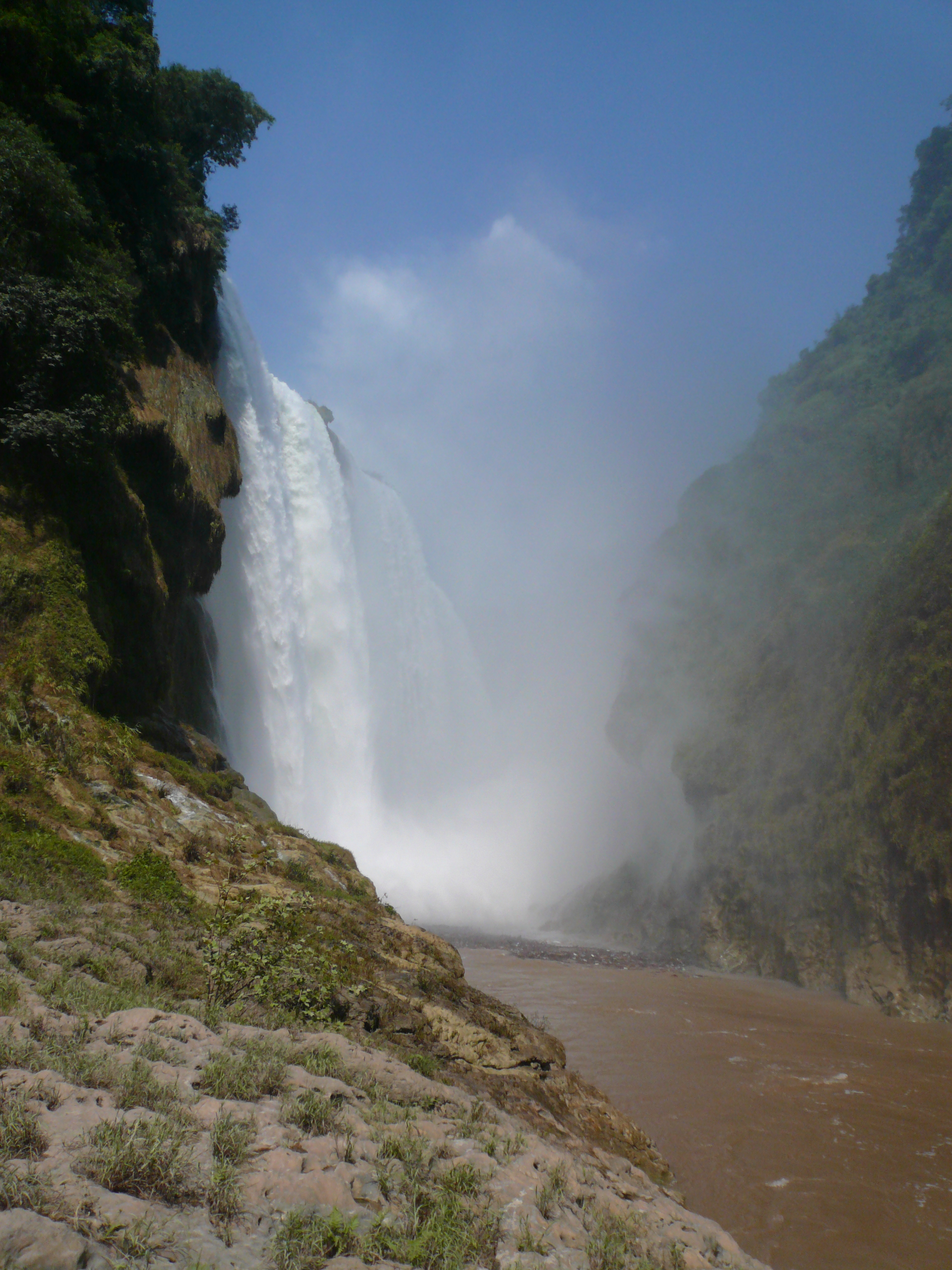 Tamul waterfalls seen from the bottom. (Tampaon river, Tamul waterfall, San Luis Potosi, Mexico)